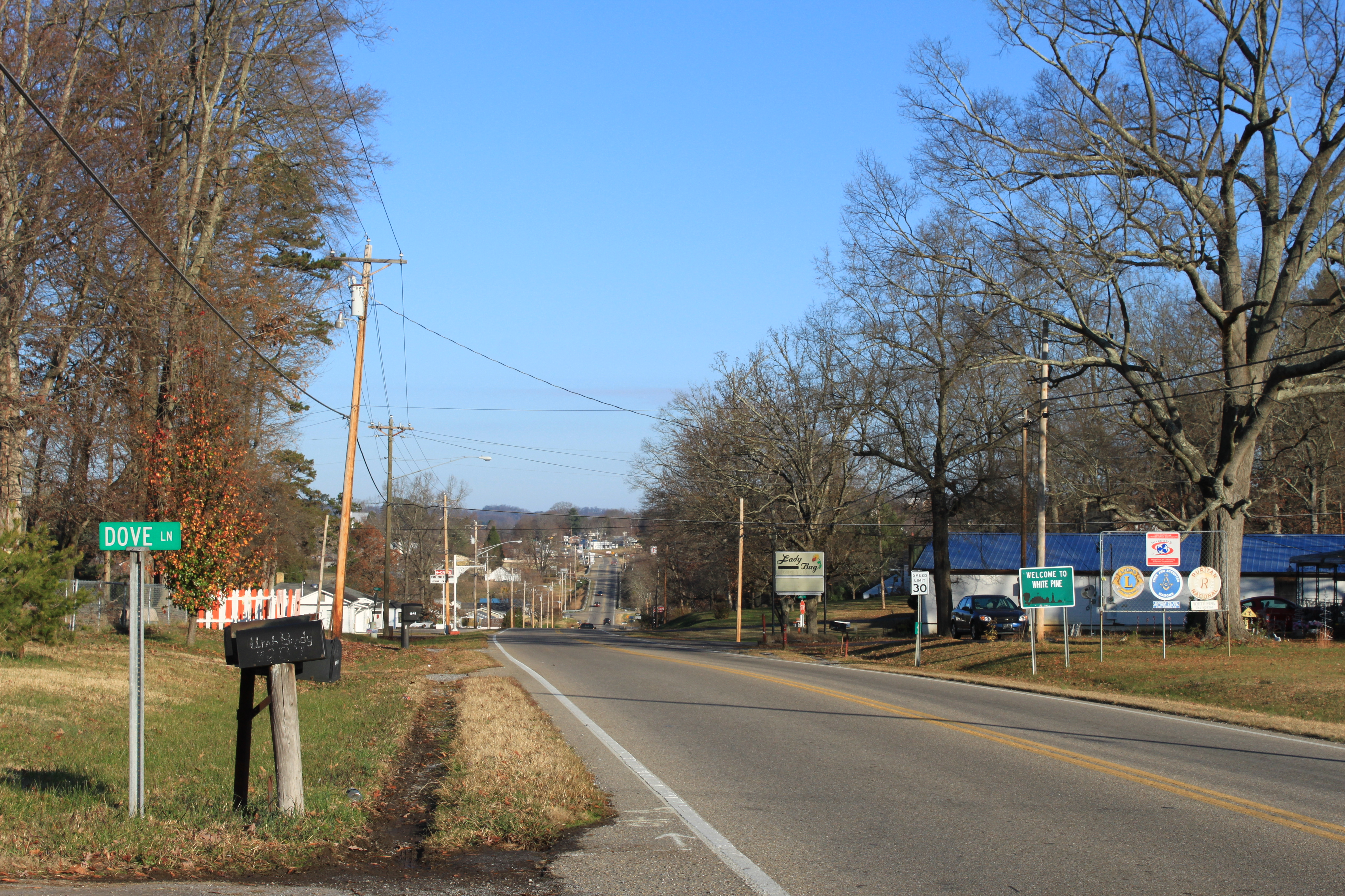 White Pine Tennessee, South State Street/U.S. Route 25E, facing north on south side of town.